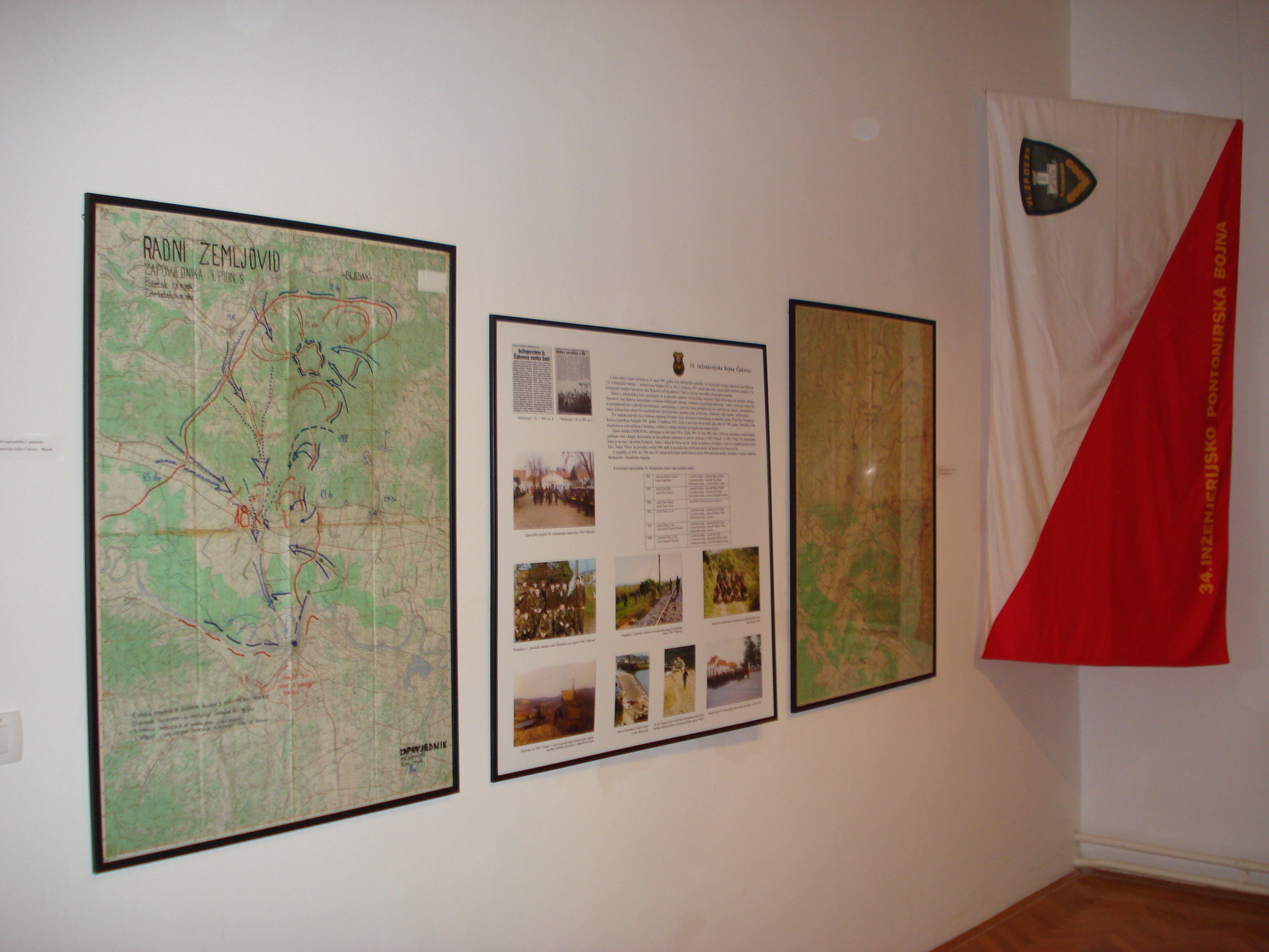 Medjimurje County Museum in Čakovec (Croatia) - Croatian War of Independence in Medjimurje County collection (Night of Museums in 2014.)